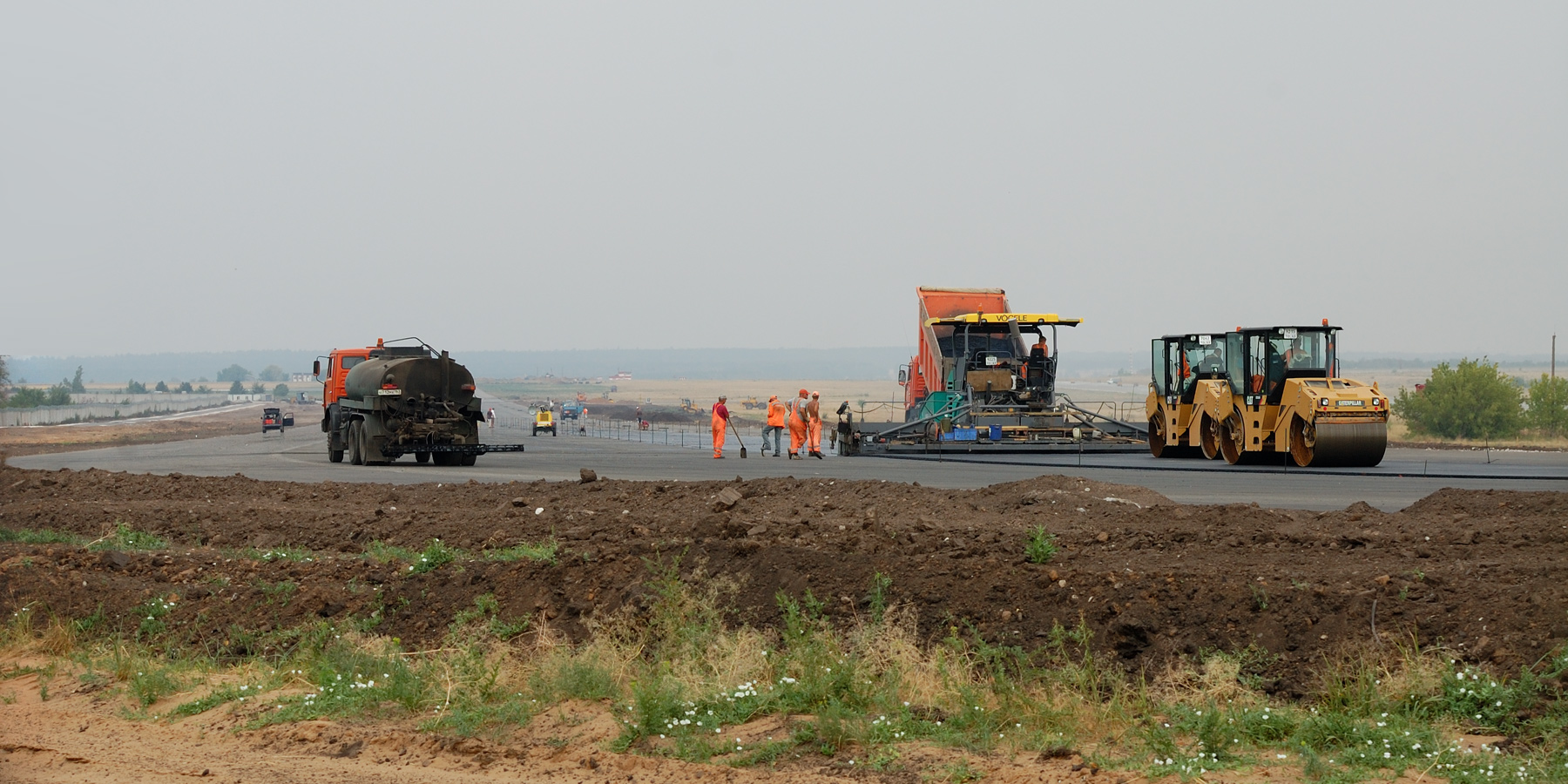 Repair of the main taxiway of 15-33 runway, Kurumoch international airport (UWWW), Samara, Russia